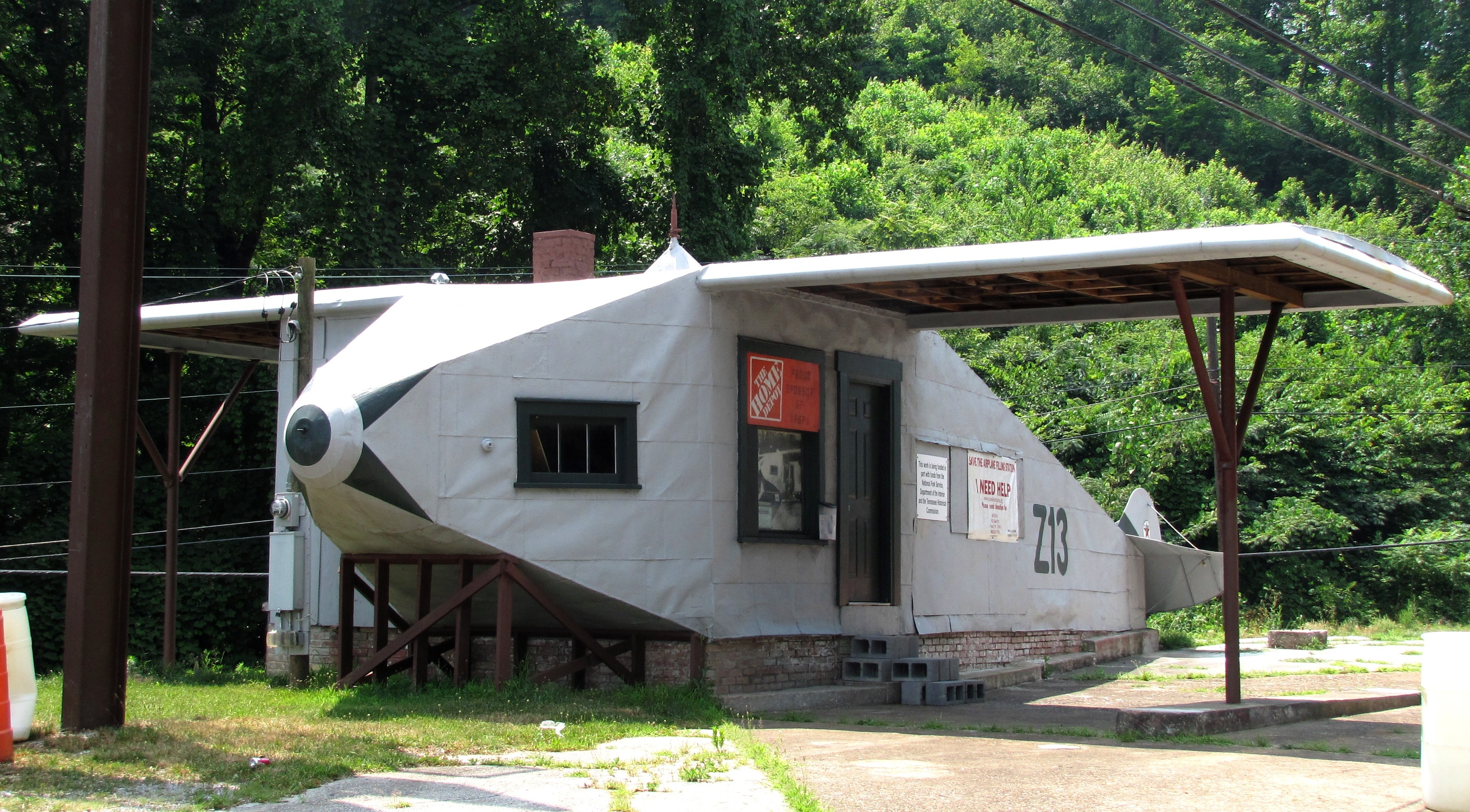 The Airplane Service Station along Clinton Highway (US-25) in Powell, Tennessee, USA. Built by Elmer and Henry Nickle in 1930, this service station is now maintained by the Airplane Filling Station Preservation Association, and is listed on the National Register of Historc Places.